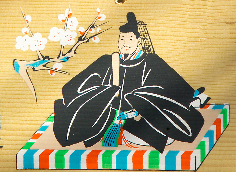 This photo shows a detail from an ema depicting Sugawara no Michizane. Jinja (Shinto shrine) Japan I took this photo.